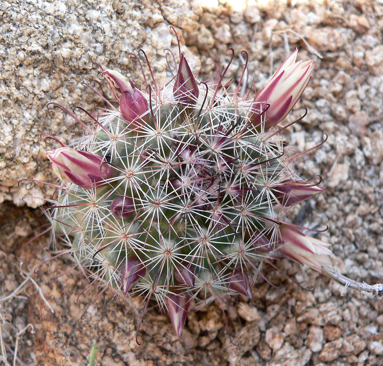 Mammillaria dioica in the Santa Rosa Mountains, on Highway 74 near Black Hill, southern California